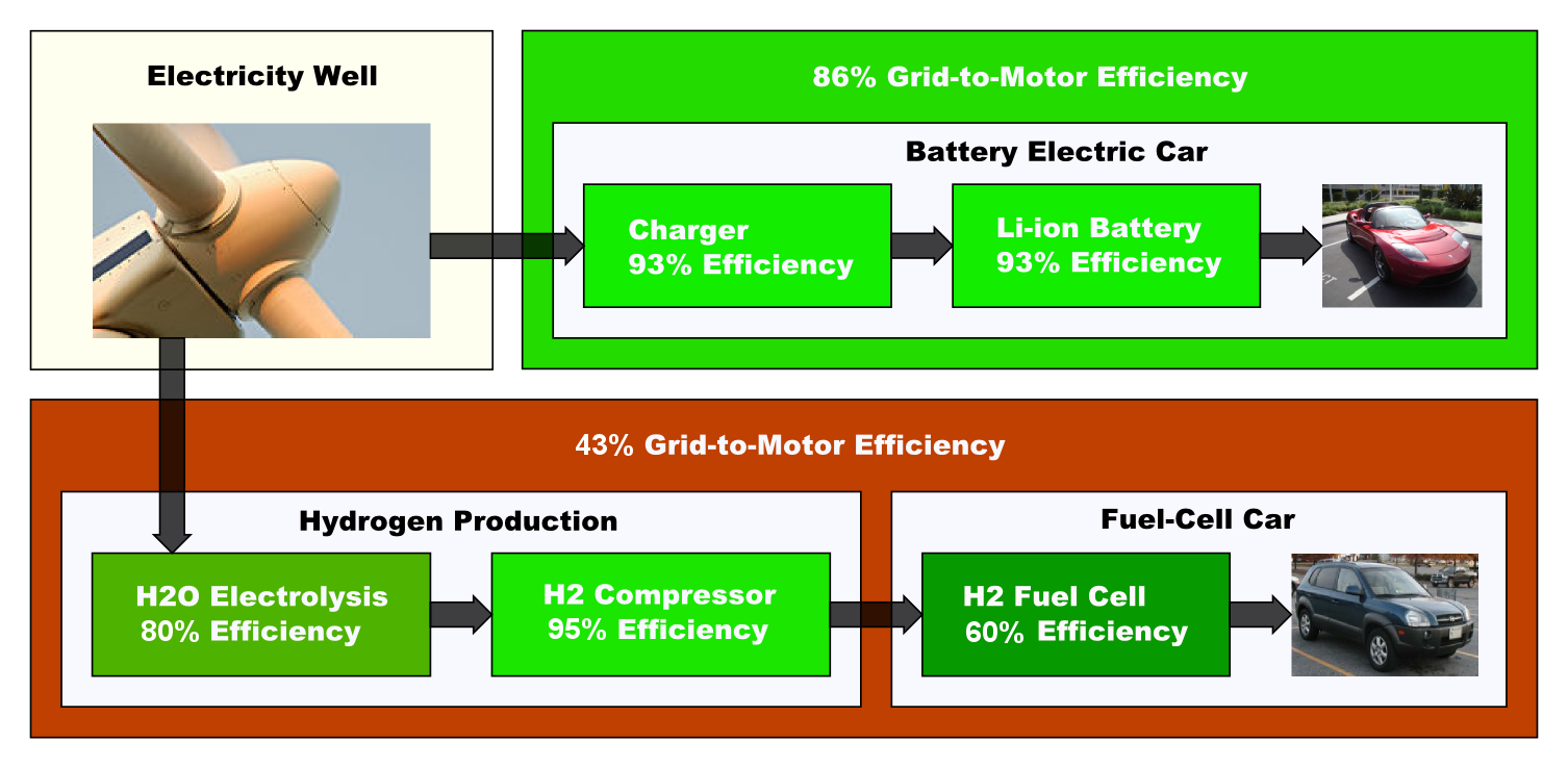 This chart was created with data found here.